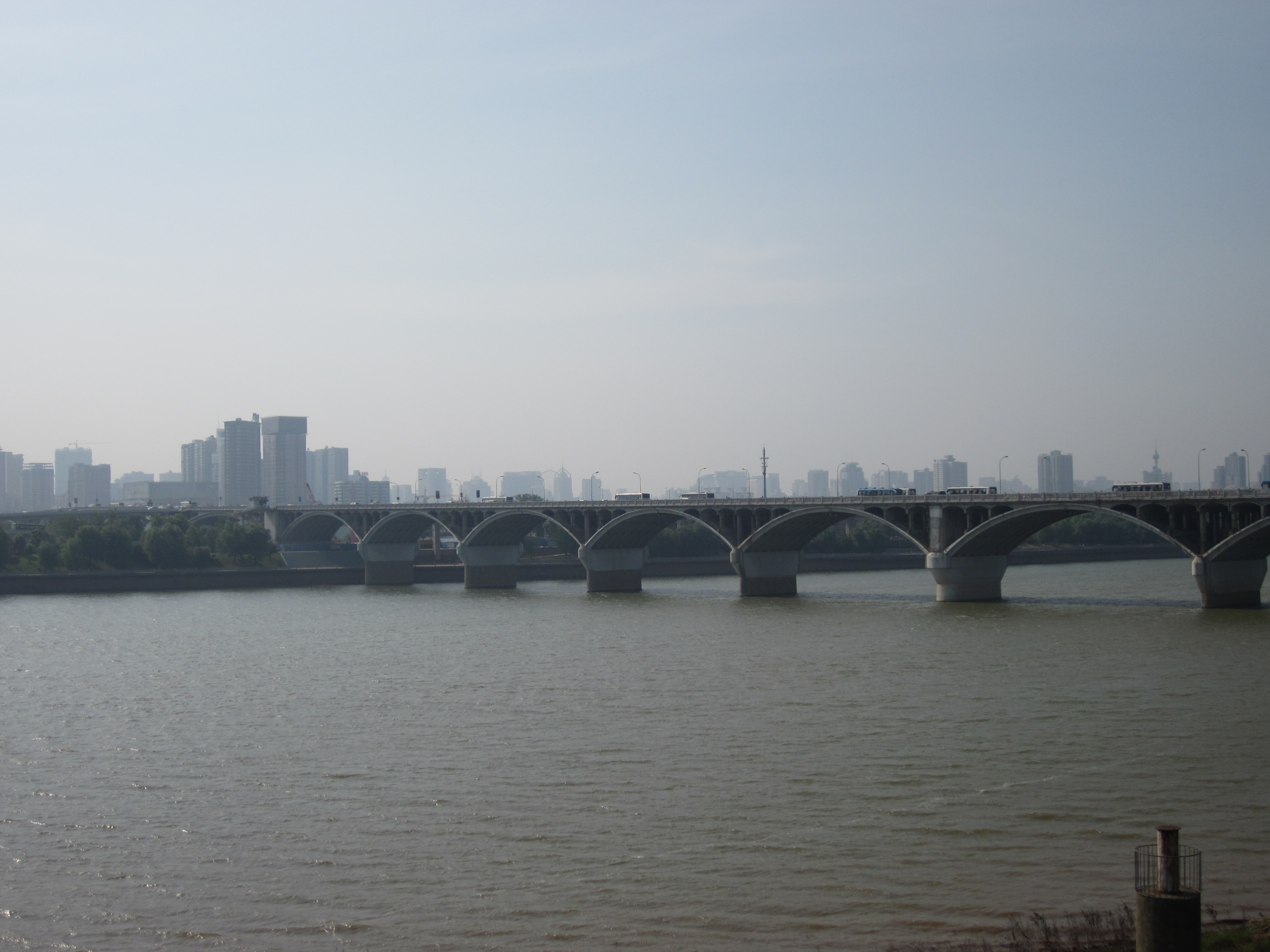 Xiangjiang River,The famous rivers in Changsha.